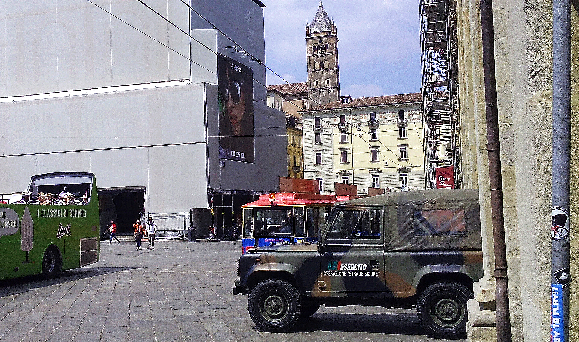 Operazione Strade Sicure: Italian Army in Bologna (piazza Maggiore), May 2015